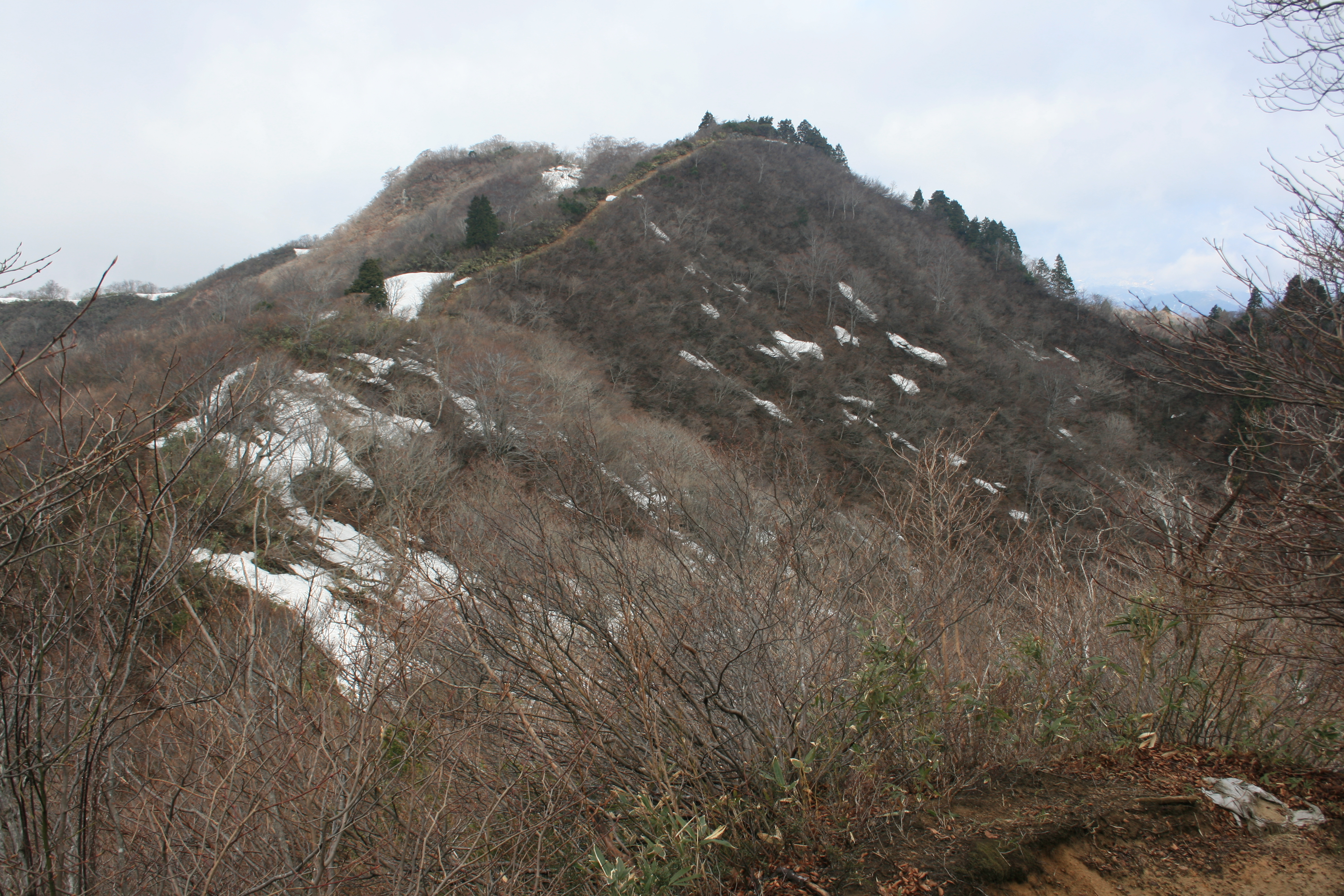 M,ount Kiazuki seen from Mount Kokaizuki, in Ibigawa, Gifu prefecture, Japan.